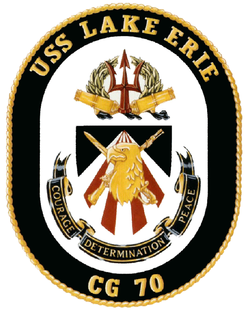 USS Lake Erie (CG-70) crest. The Carronades are emblematic of the American firepower that was so decisive in the Battle of Lake Erie. The olive branches symbolize peace, achieved and maintained through strength and military preparedness. The trident, red for courage and valor, is a traditional naval symbol that typifies an AEGIS cruiser’s capabilities on the earth’s surface, below the surface of our oceans, and in the air.